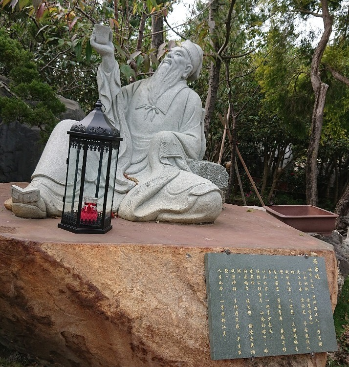 The statue of Su Dongpo in chifa-mazu temple.